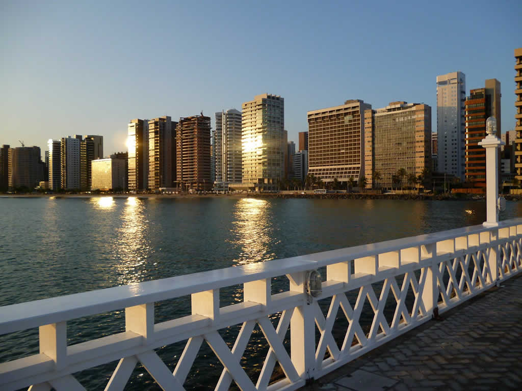 cityf